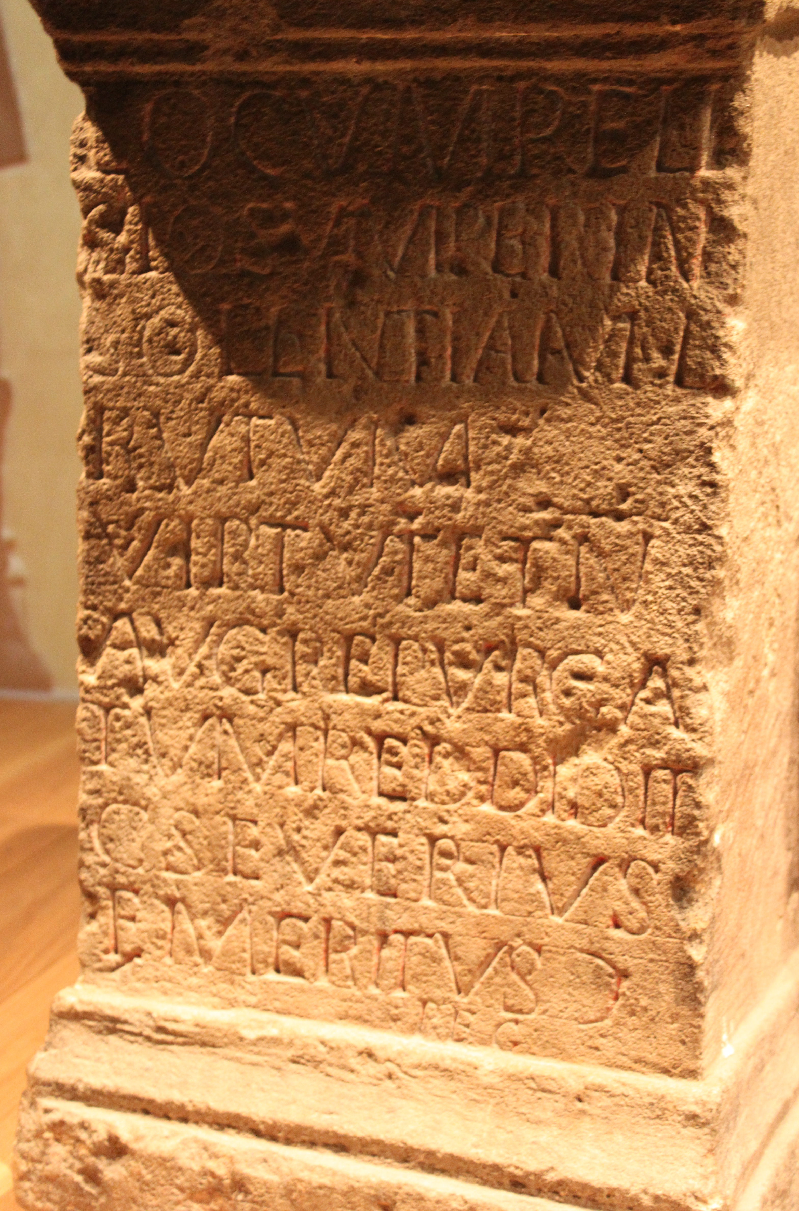 Ancient Roman inscription found in Bath in 1752